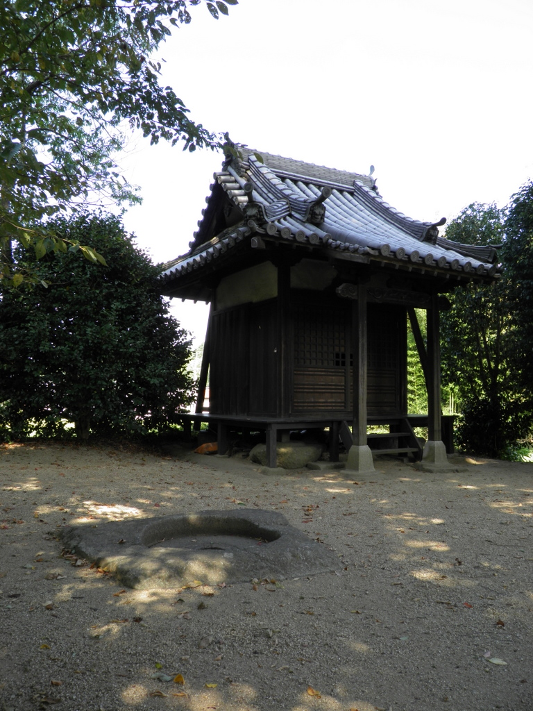 Kosedera temple tower in ruins